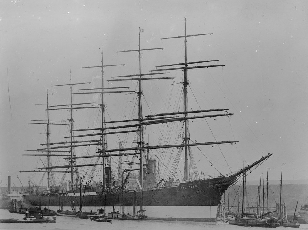 Full rigged five mast ship „Preussen“ in a habor.